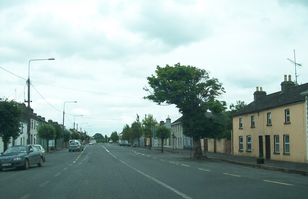 The wide main street of Clonmellon, Westmeath